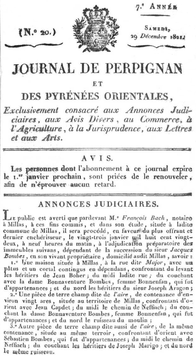 Cover of "Journal de Perpignan et des Pyrénées Orientales (29.12.1821)